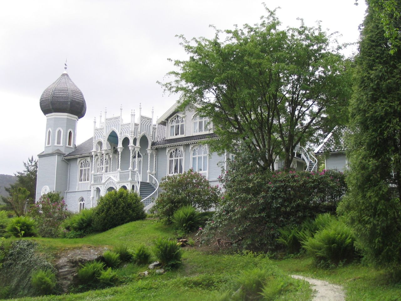 Ole Bulls villa on Lysøen.